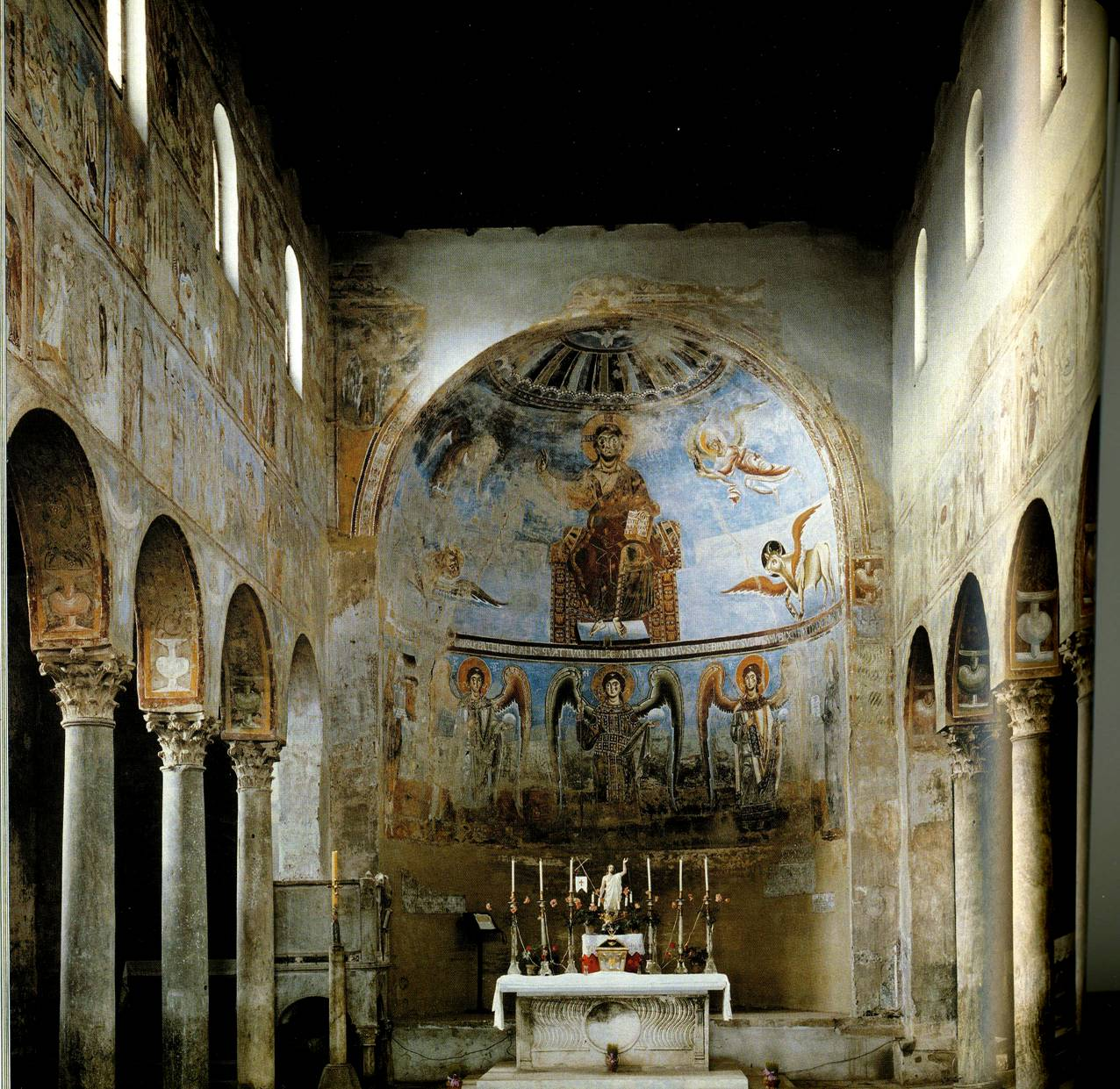 Church of Sant'Angelo in Formis.